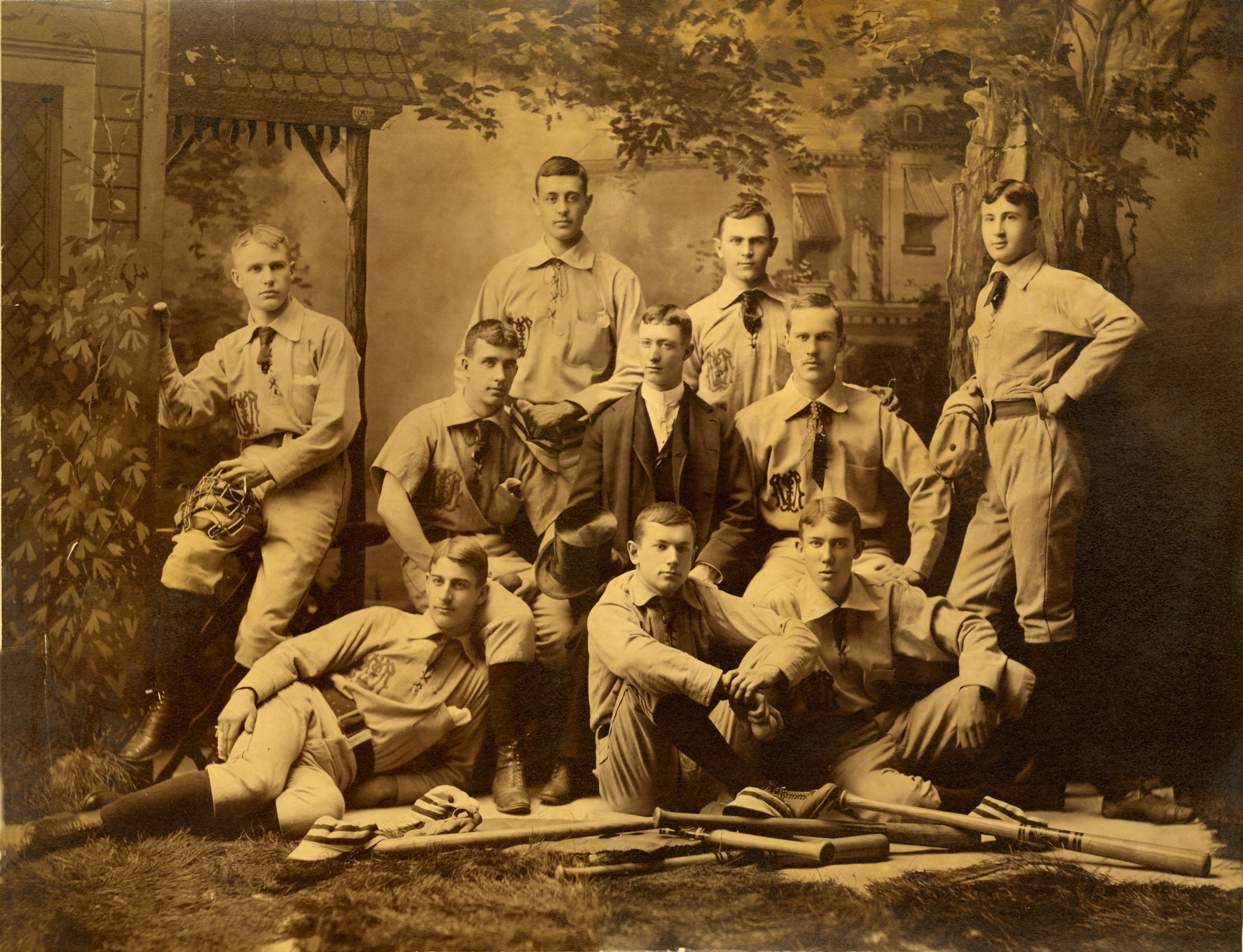 1886 University of Michigan baseball team. Back row (standing): Jaycox, McMillan, McArthur Middle row: Miller, McDonnell, manager Frank A. Rasch, Muir Front row: Wilkinson, Hibbard, Carpenter